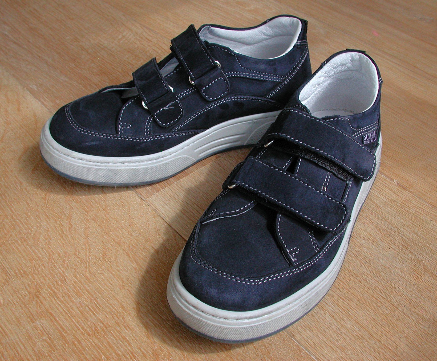 A pair of blue children's shoes on a wooden floor.